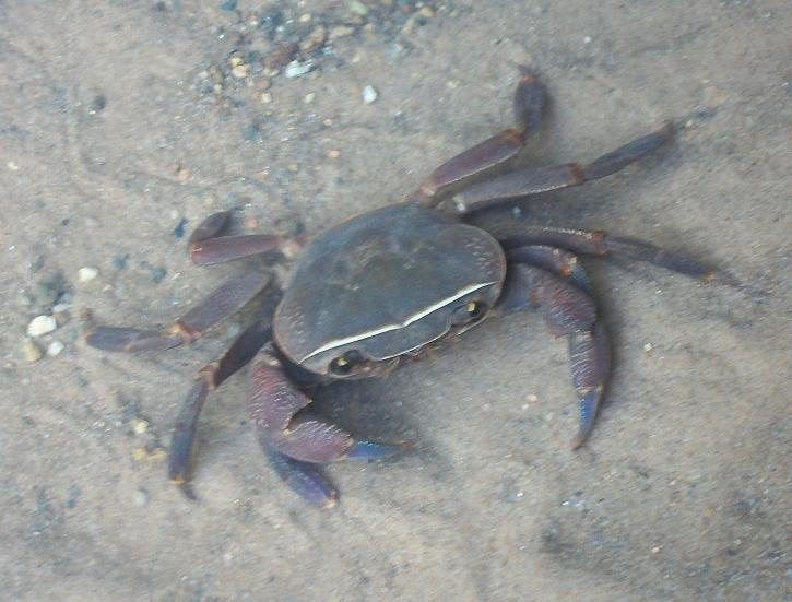 Potamonautes sidneyi in water at Umdoni Bird Sanctuary.